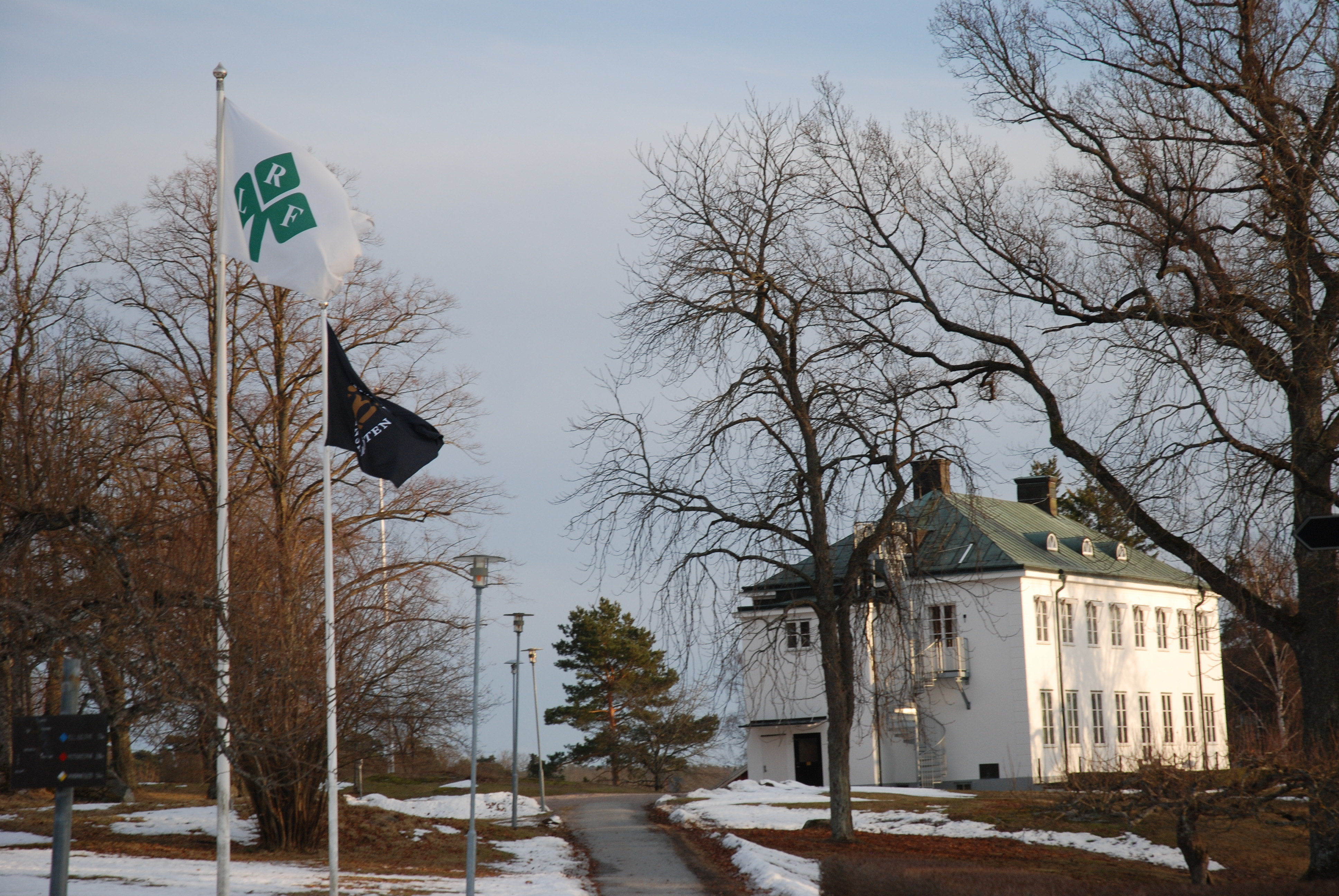 Sånga-Säby Manor, Ekerö, Sweden